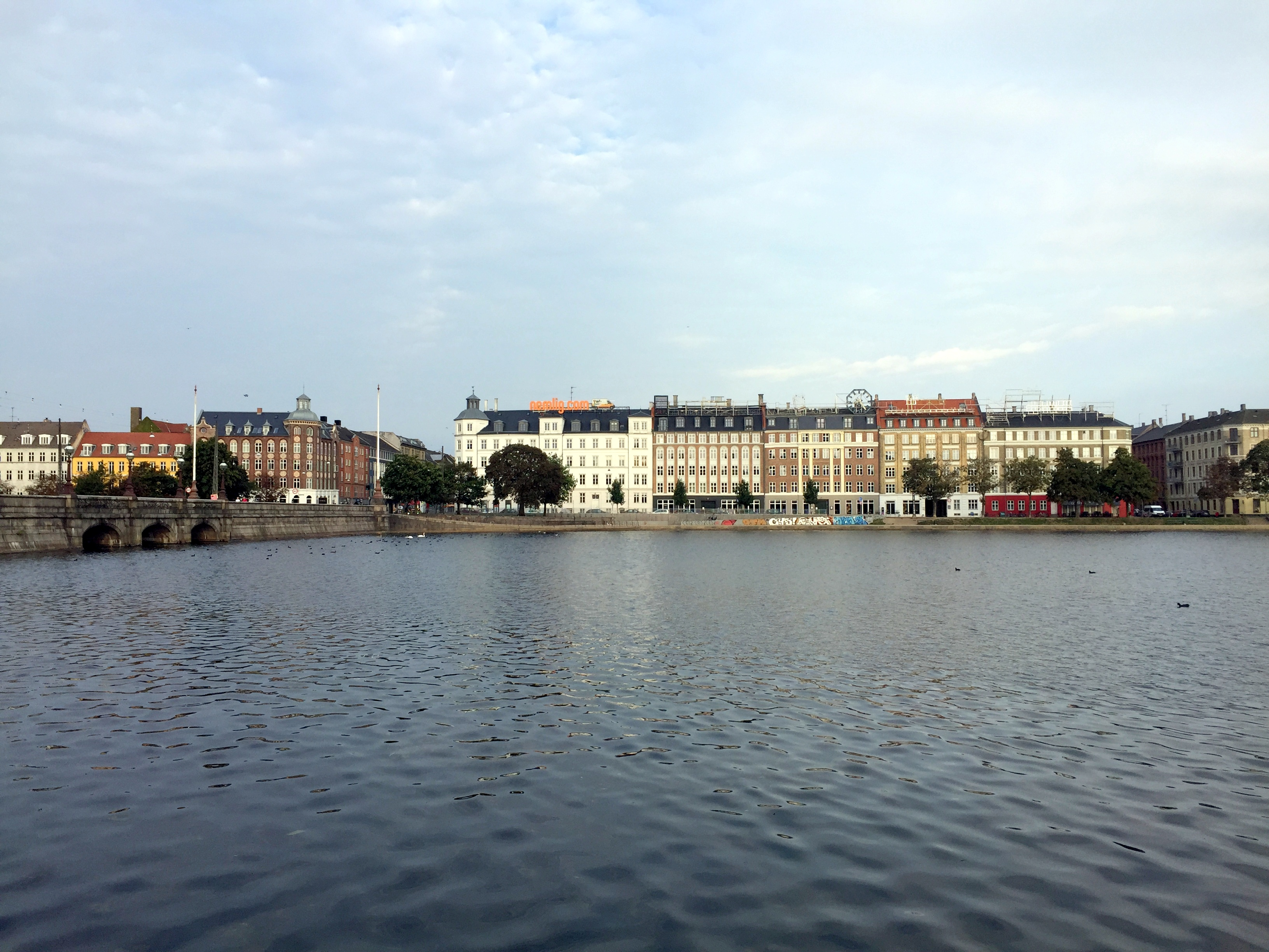 The first part of Sortedam Dossering - known as the Irma Block (Irma Karéen) - in the Nørrebro district of Copenhagen, Denmark